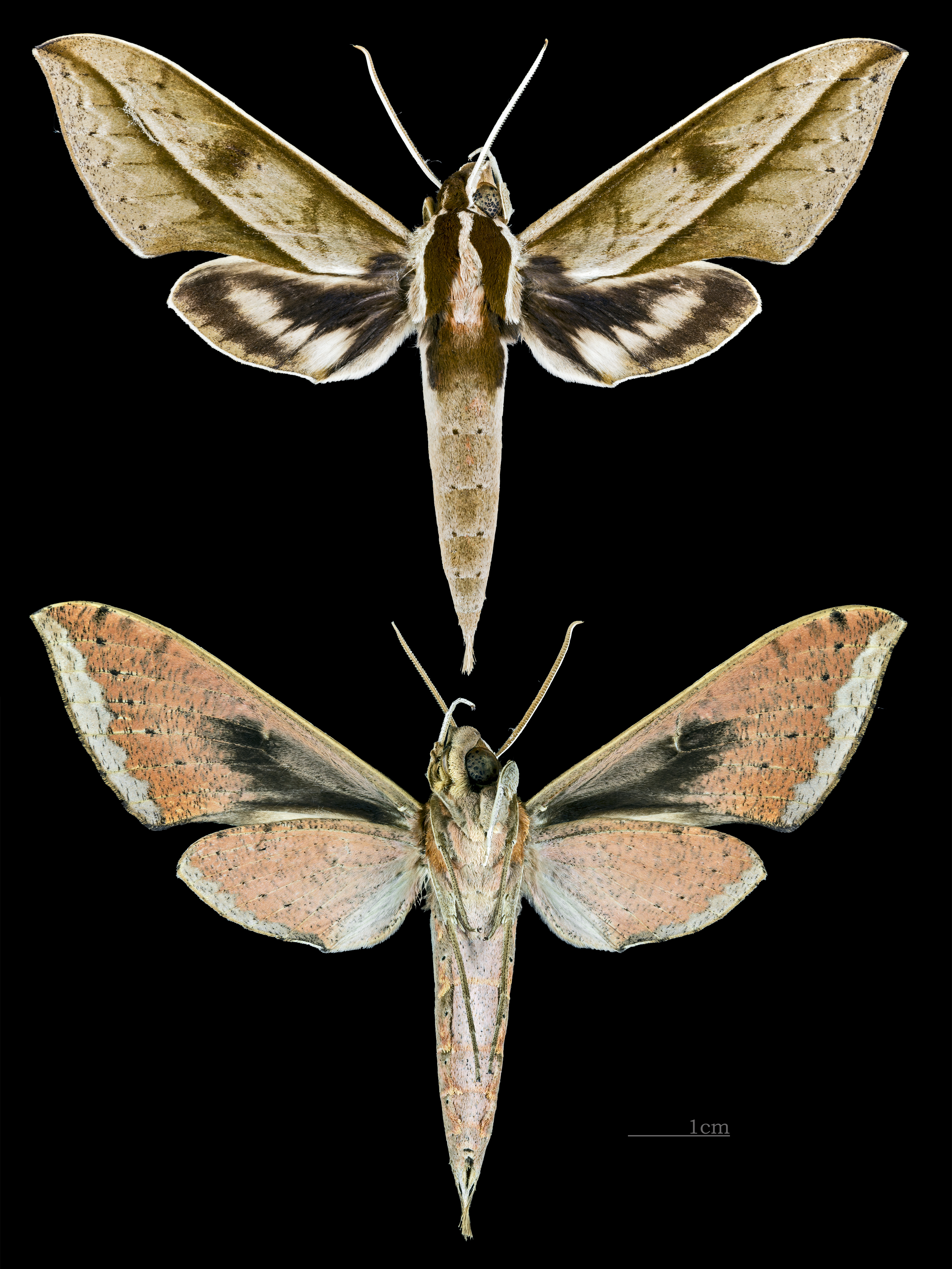 Xylophanes meridanus - Two views of same specimen